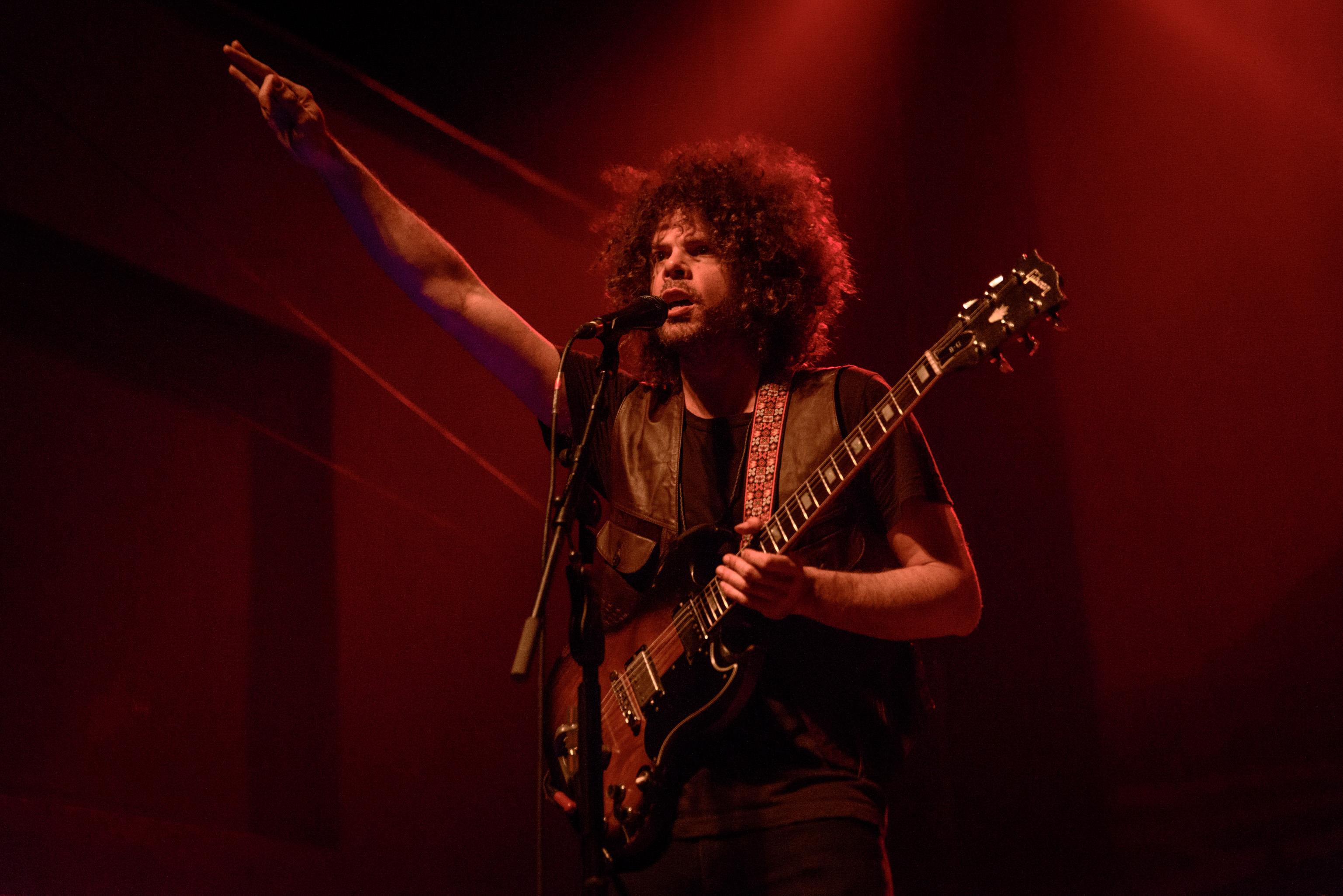 Wolfmother Live @ Munich 2016